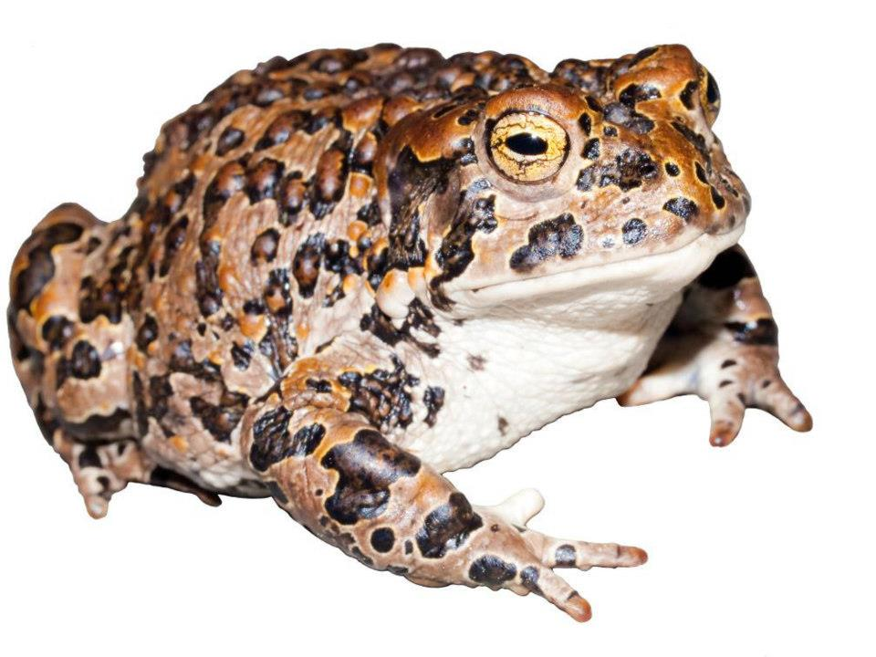 An adult female Yosemite toad